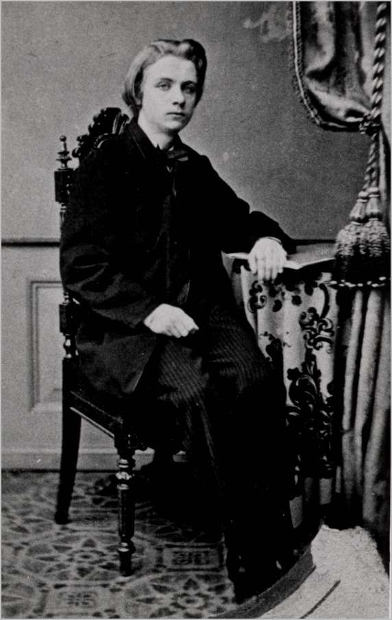 Portrait of young Edvard Grieg, seated sideways at table, proper left arm on table, looking into camera.